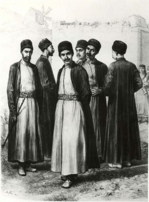 Crimean Karaites (or Qaraylar, or karaits) men from Сrimea in traditional dress, 19th century. Auguste Raffet, 1837.